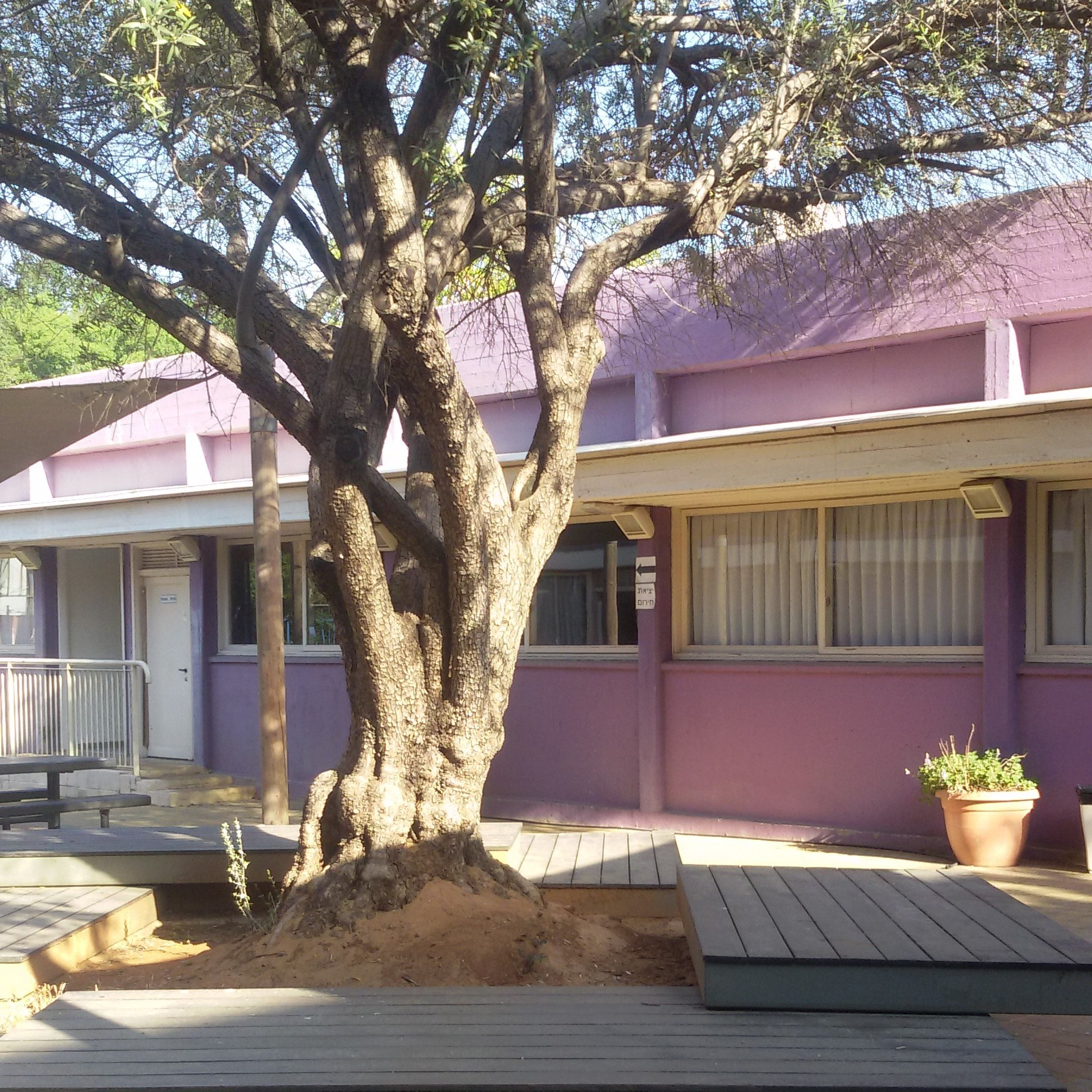 מקיף רמת גן